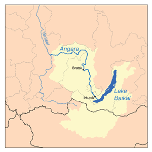 This is a map of the Angara River Watershed. I, Karl Musser, created it based on USGS data.